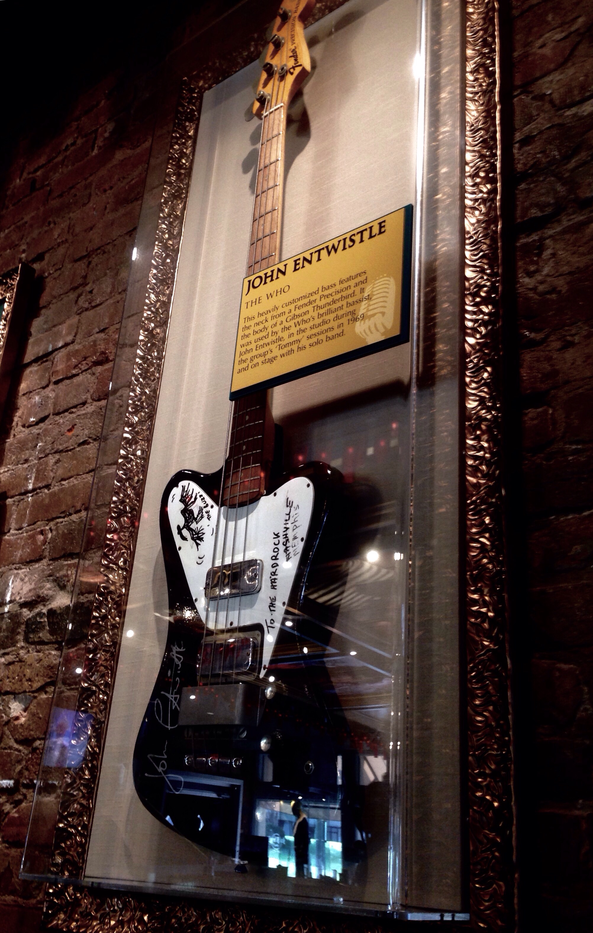 This image was taken in July 5th 2016 during my vacation in Memphis, Tennessee; Depicted is John Entwistle's bass guitar that he used for the recording session of rock opera Tommy, with a Fender neck and a Gibson body.